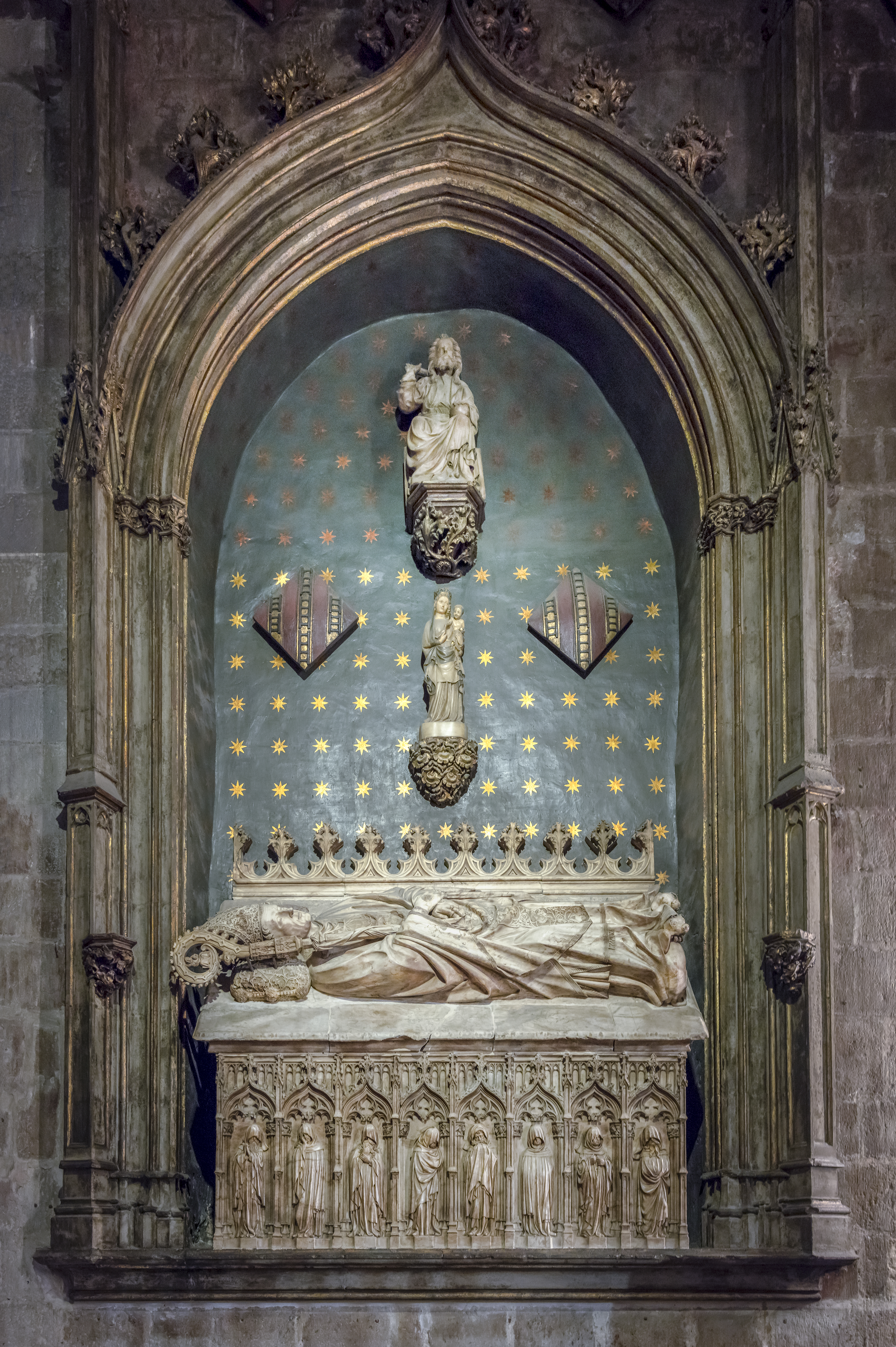 The Cathedral of the Holy Cross and Saint Eulalia in Barcelona. Chapel of the Saint Innocents. Gothic sepulcher of the bishop Ramon d'Escales (1386-1398), work of the sculptor Antoni Canet in 1409.